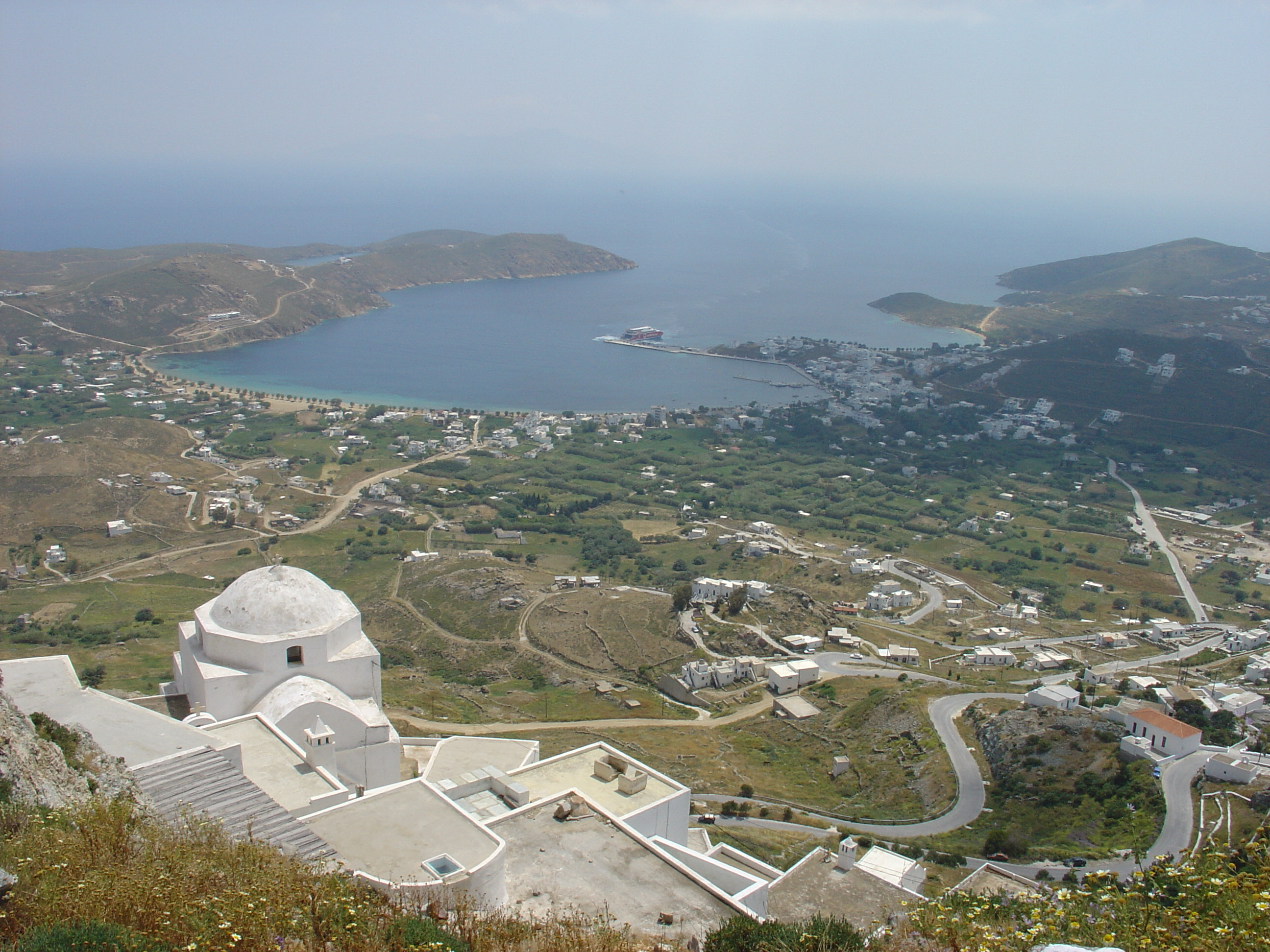 Serifos